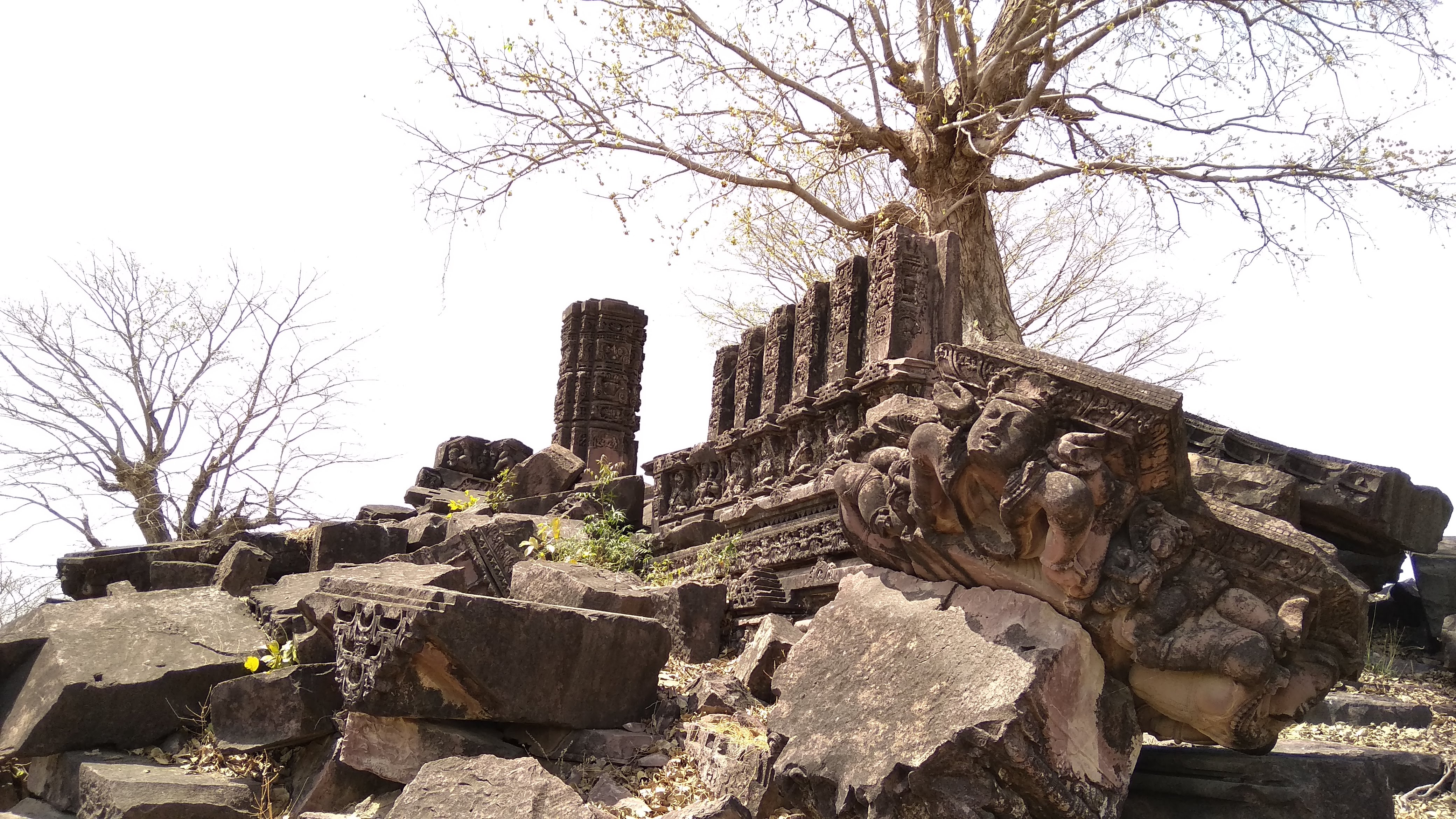 the historical Gargach temple of Atru